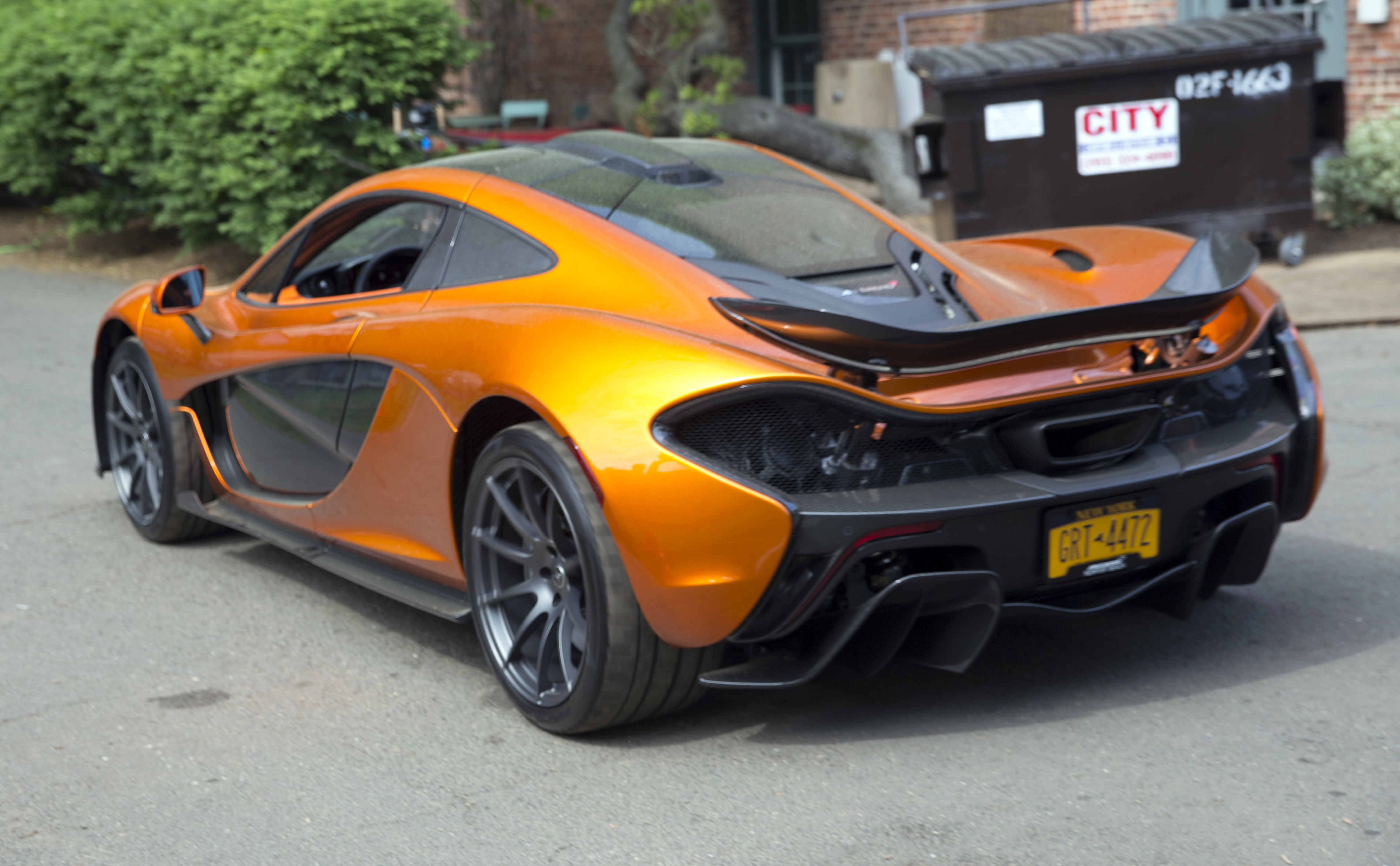 A 2014 McLaren P1 leaving the 2018 Greenwich Concours d'Elegance. This seems to be the highest suspension settin; the active suspension control (RCC) allows the car to be raised or lowered or used in one of four different suspension modes.